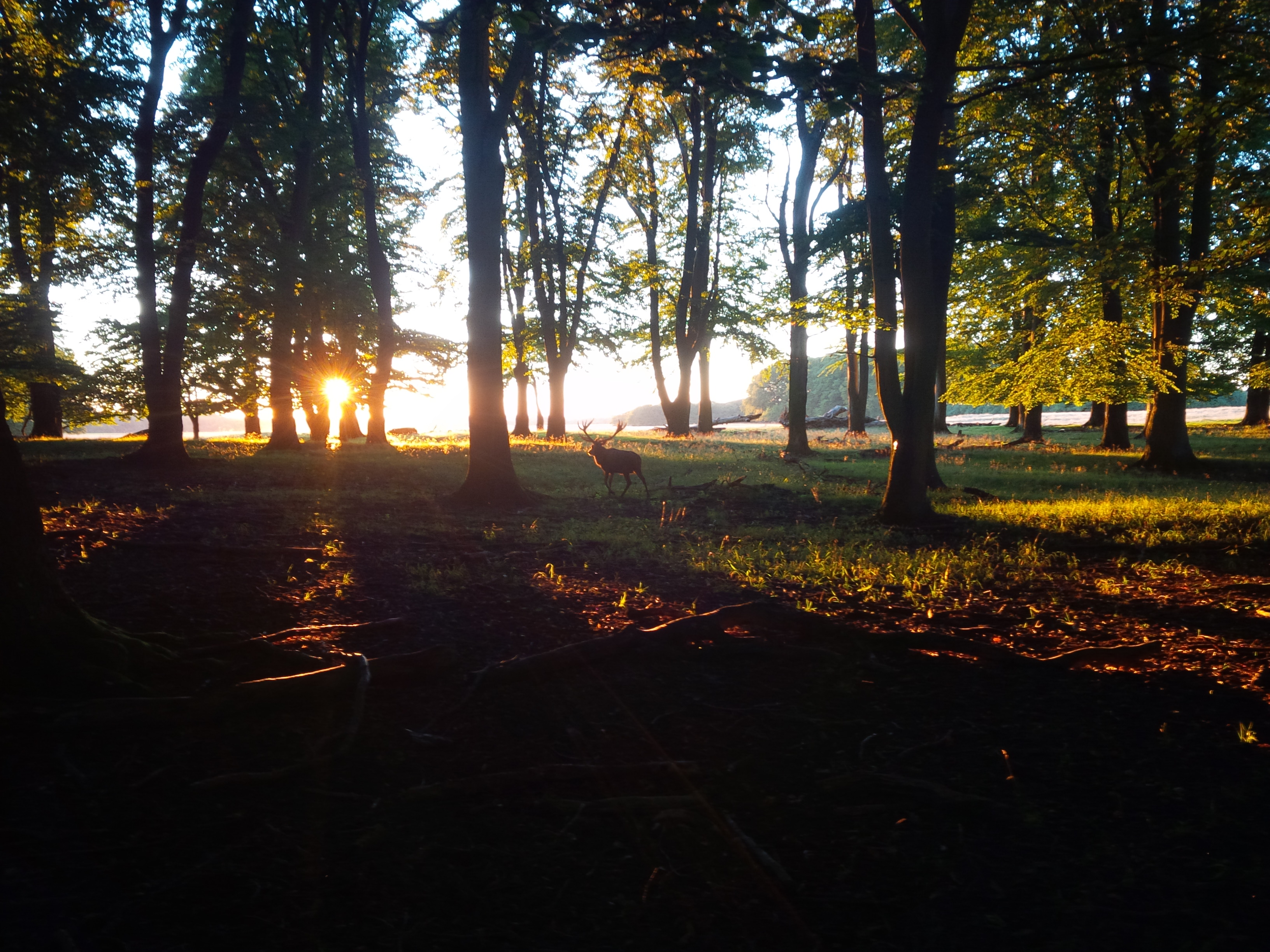 Sunset in Dyrehaven north of Copenhagen